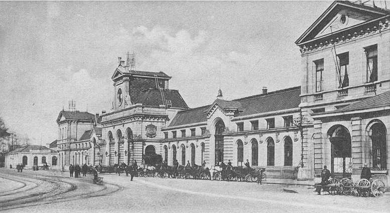 Post card of Namur railway station in 1904